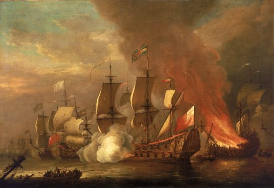 An Action of the English Succession.